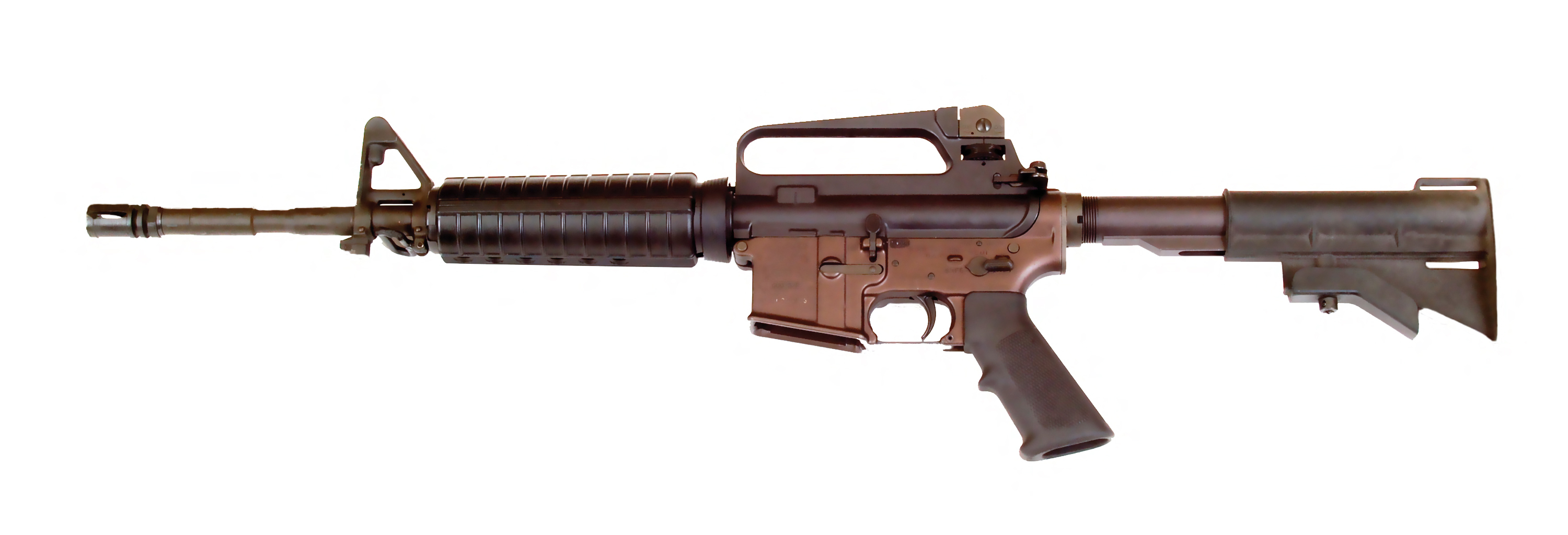 GUU-5P Carbine Primary function: Anti-personnel and light materiel targets. Length: 30 in. Weight: 6.38 lbs. with 30-round magazine. Caliber: 5.56 mm. Maximum effec- tive range: 300 meters. Cyclic rate of fire: 650-900 rounds per minute.